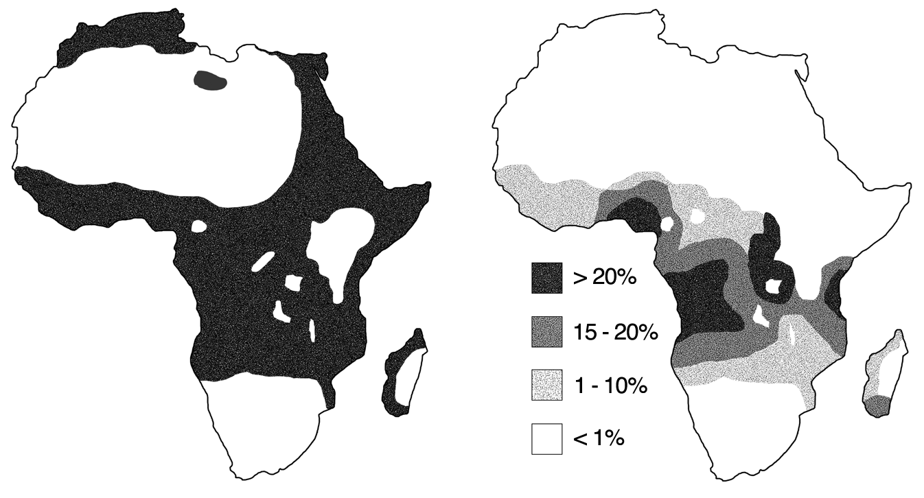 Comparison of the distribution of malaria (left) and sickle-cell trait (right).